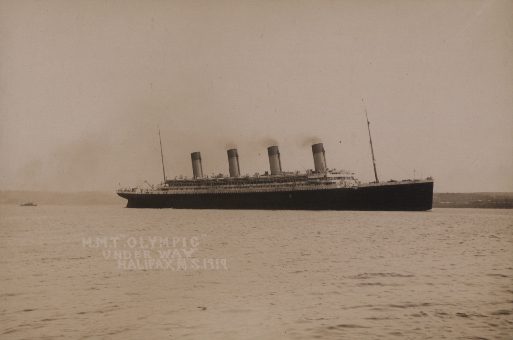 Original caption: “HMS "Olympic" under way, Halifax, Nova Scotia, 1919.”